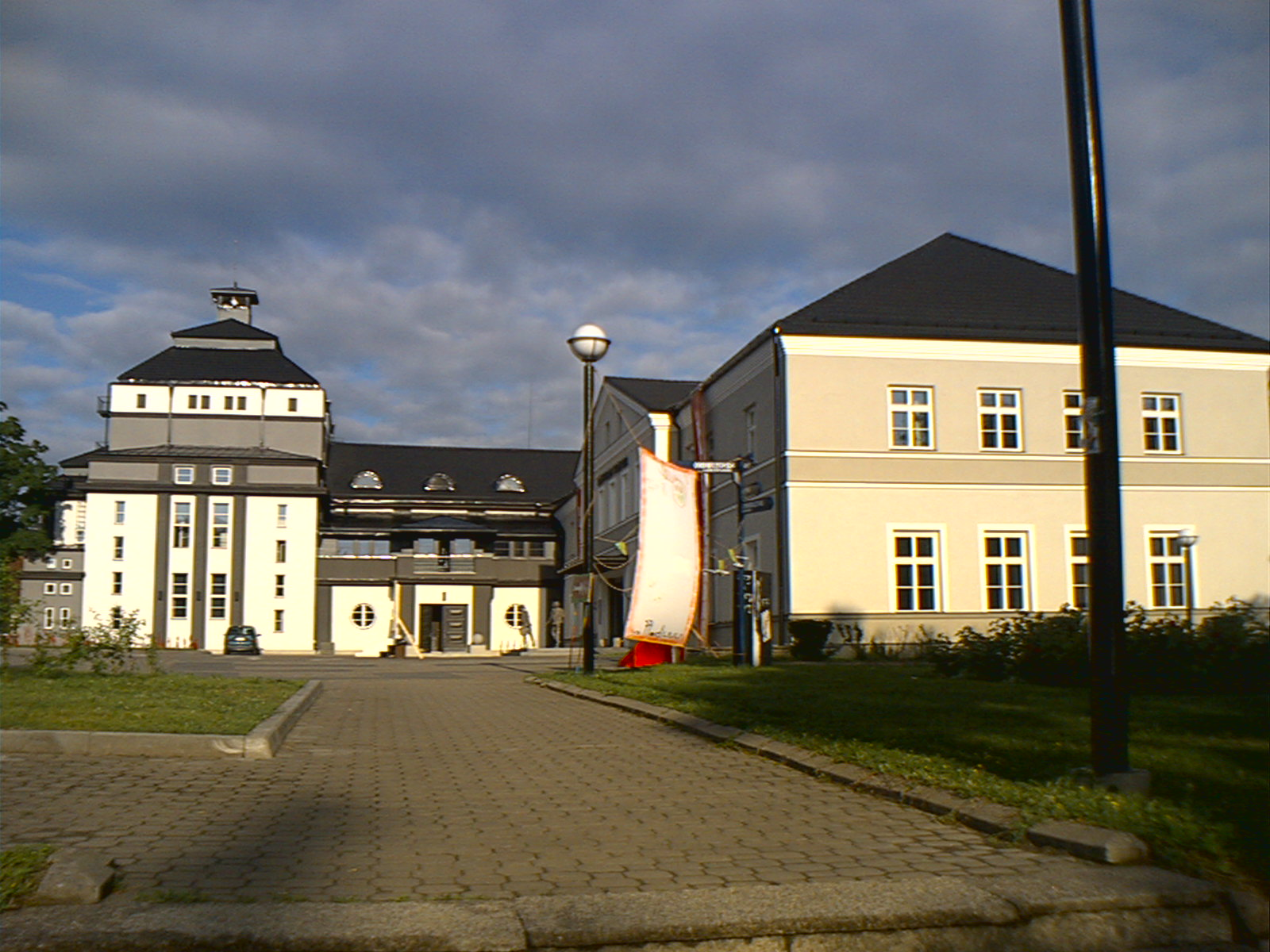 Baltoscandal theatre festival in Rakvere, Estonia 2006. Rakvere theatre.